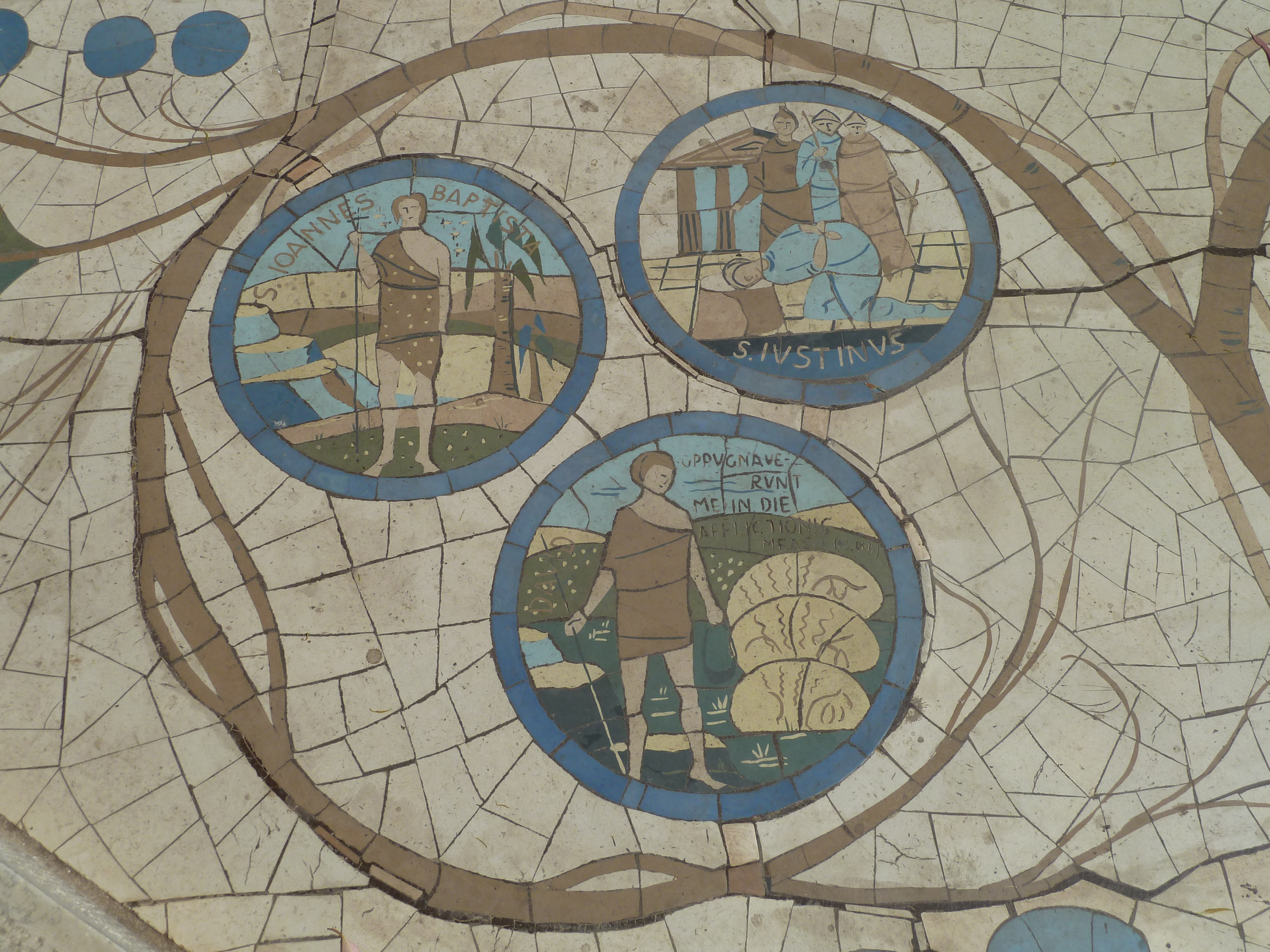 Mosaics in Mount of Beatitudes: (1) John the Baptist (2) Justin Martyr (3) David (words: Psalm 18:19)